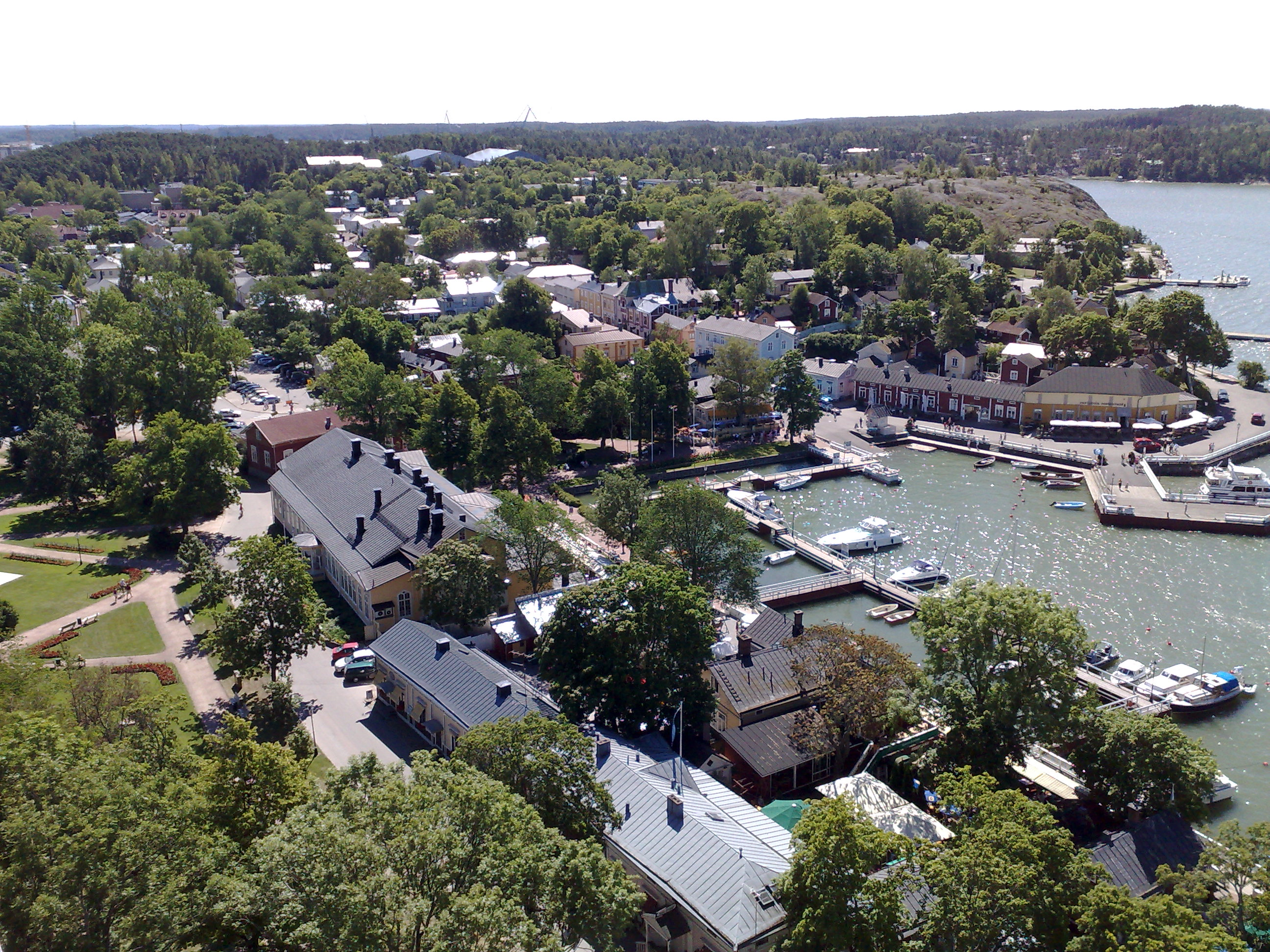 View from Church of Naantali in Naantali, Finland.